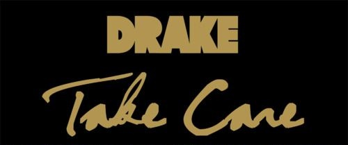 Official cover, only letters. No Image